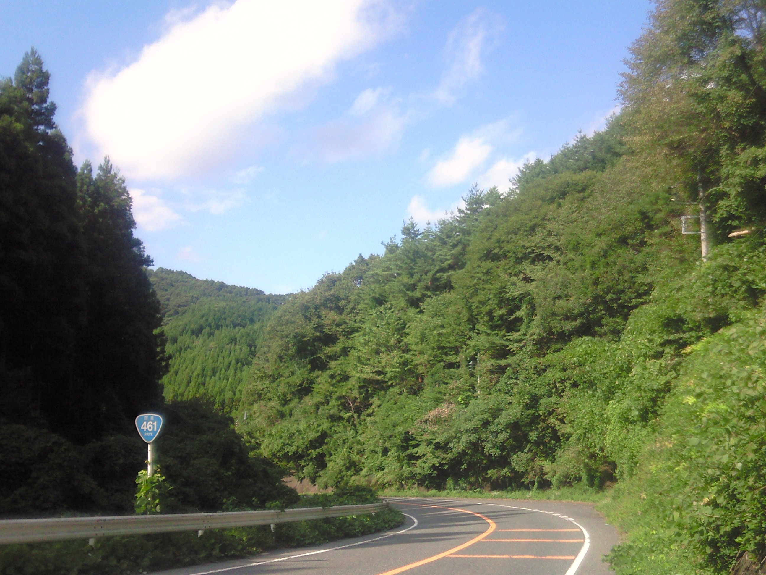 National Route 461 in Hitachioota City (formerly Satomi Village).